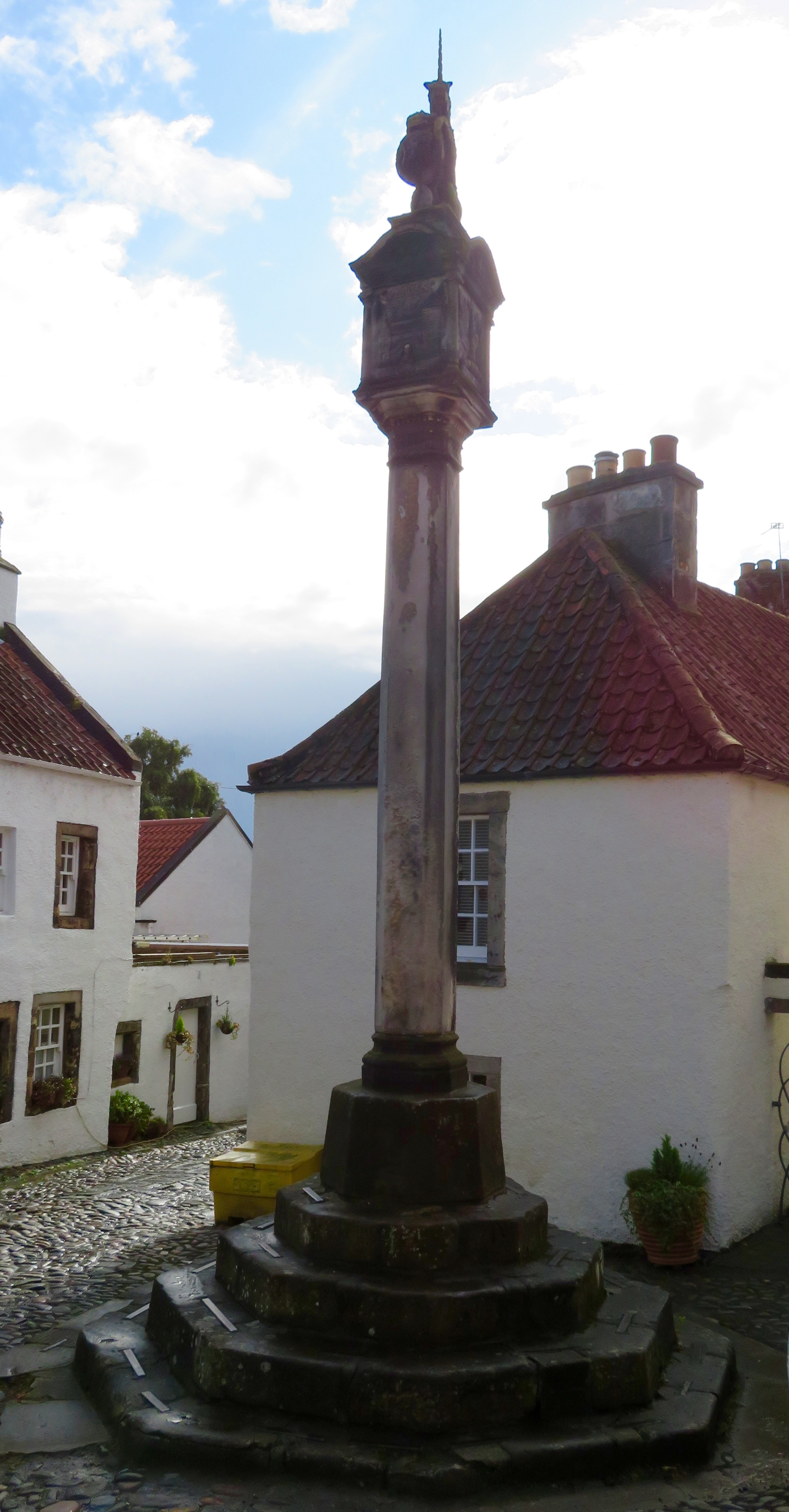 Culross, The Cross, Market Cross Wikidata has entry Q17567823 with data related to this item.